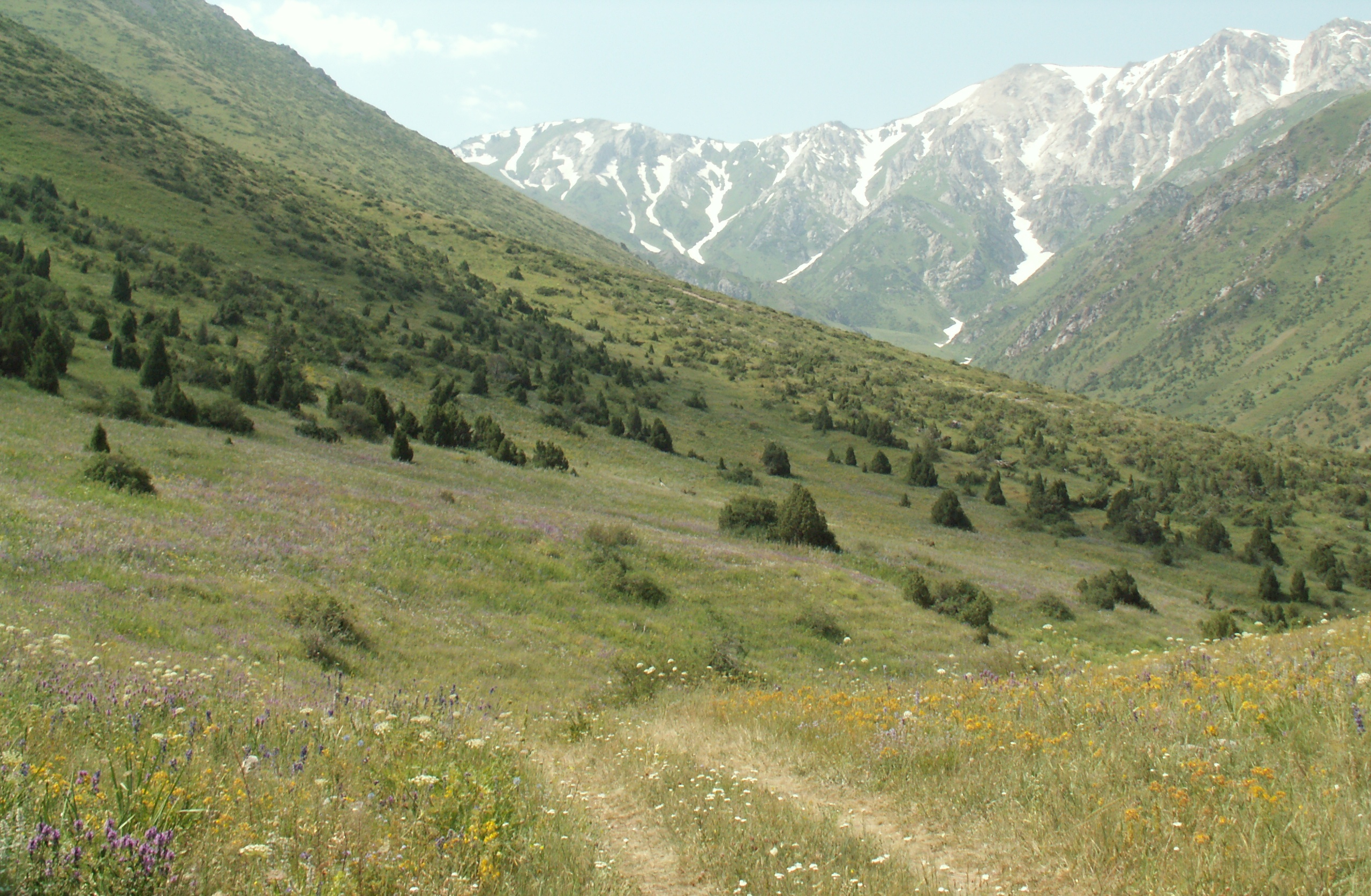 Aksu-Jabagly Nature Reserve, with Juniperus scrub. Plateau between Kshi- and Ulken-Kaindy, Kazakhstan.